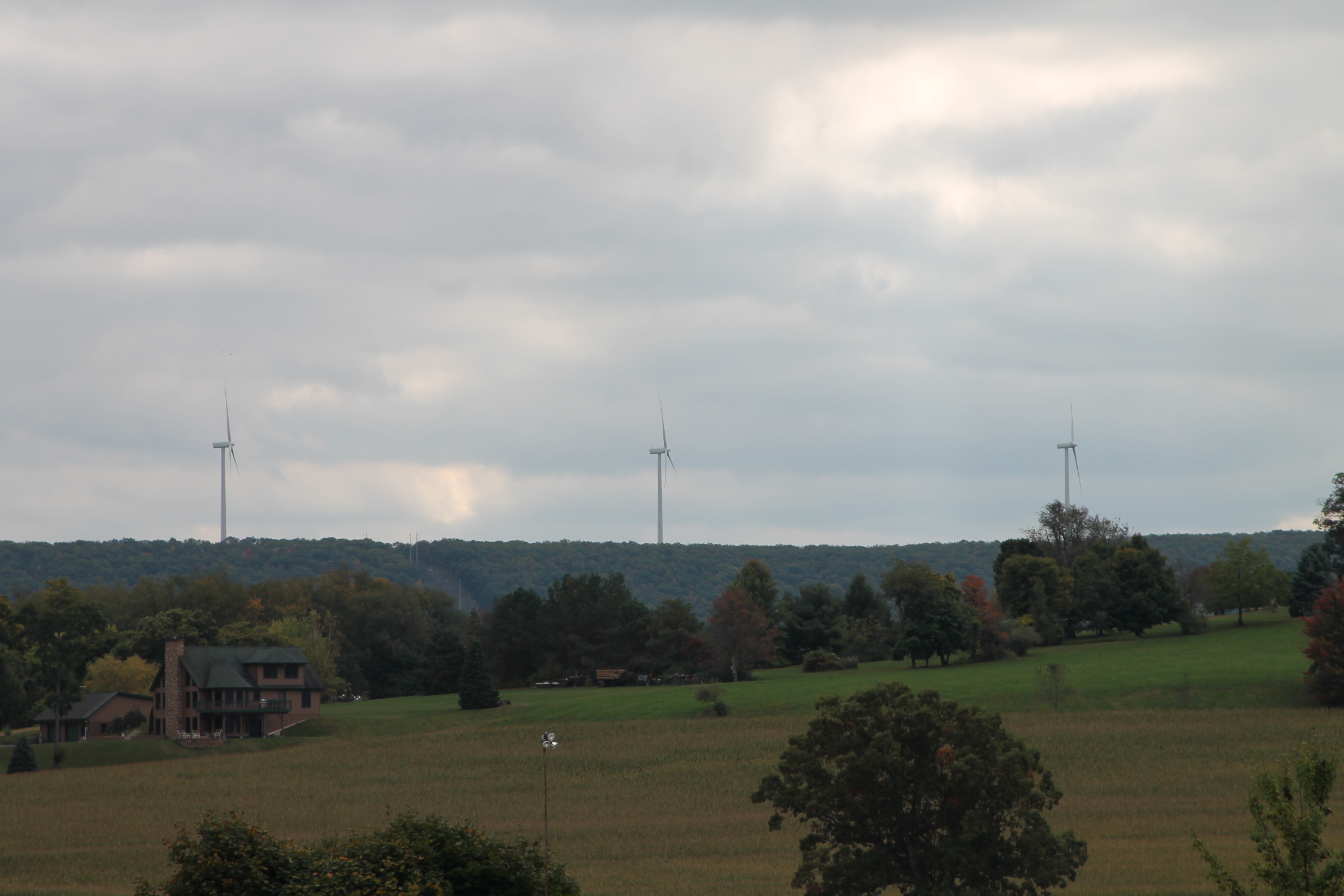 Wind turbines in northern Schuylkill County, Pennsylvania